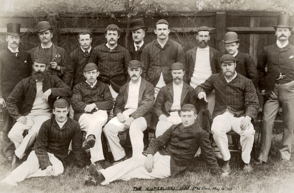 Scan of the 1888 Australia national cricket team Back row (l-r) C W Beal (manager), Affie Jarvis, Jack Worrall, Sammy Jones, Frank Farrand (umpire), Jack Lyons/John Ferris ?, Jack Blackham, John Edwards, C Lord. Middle row (l-r) Harry Boyle, Charles Turner, Percy McDonnell, Alick Bannerman, George Bonnor. Front row (l-r) John Ferris, Harry Trott